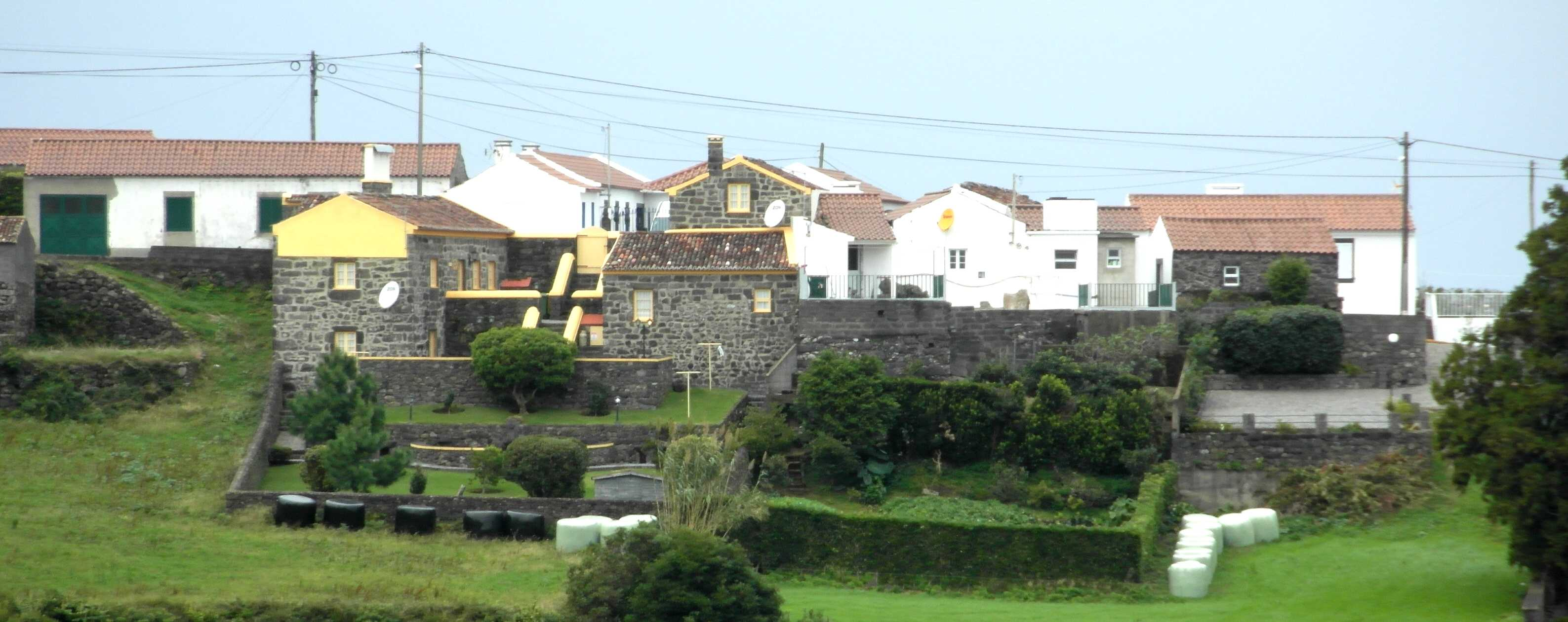 Lomba da Cruz